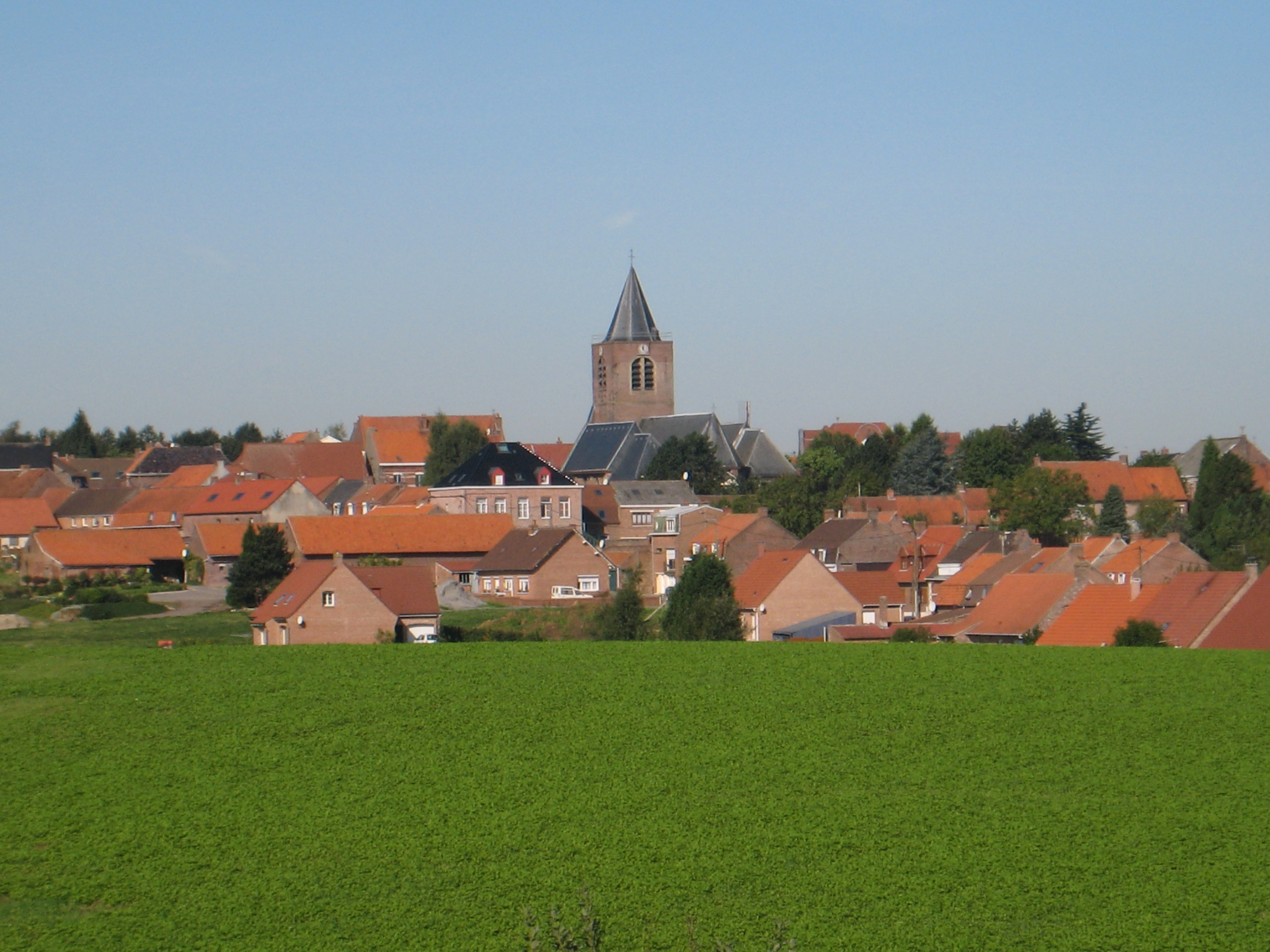 The village of Boeschepe